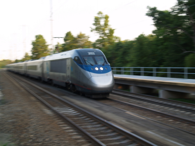 Acela Hi Speed Train speeding through BWI Amtrak Station, near Baltimore, Maryland